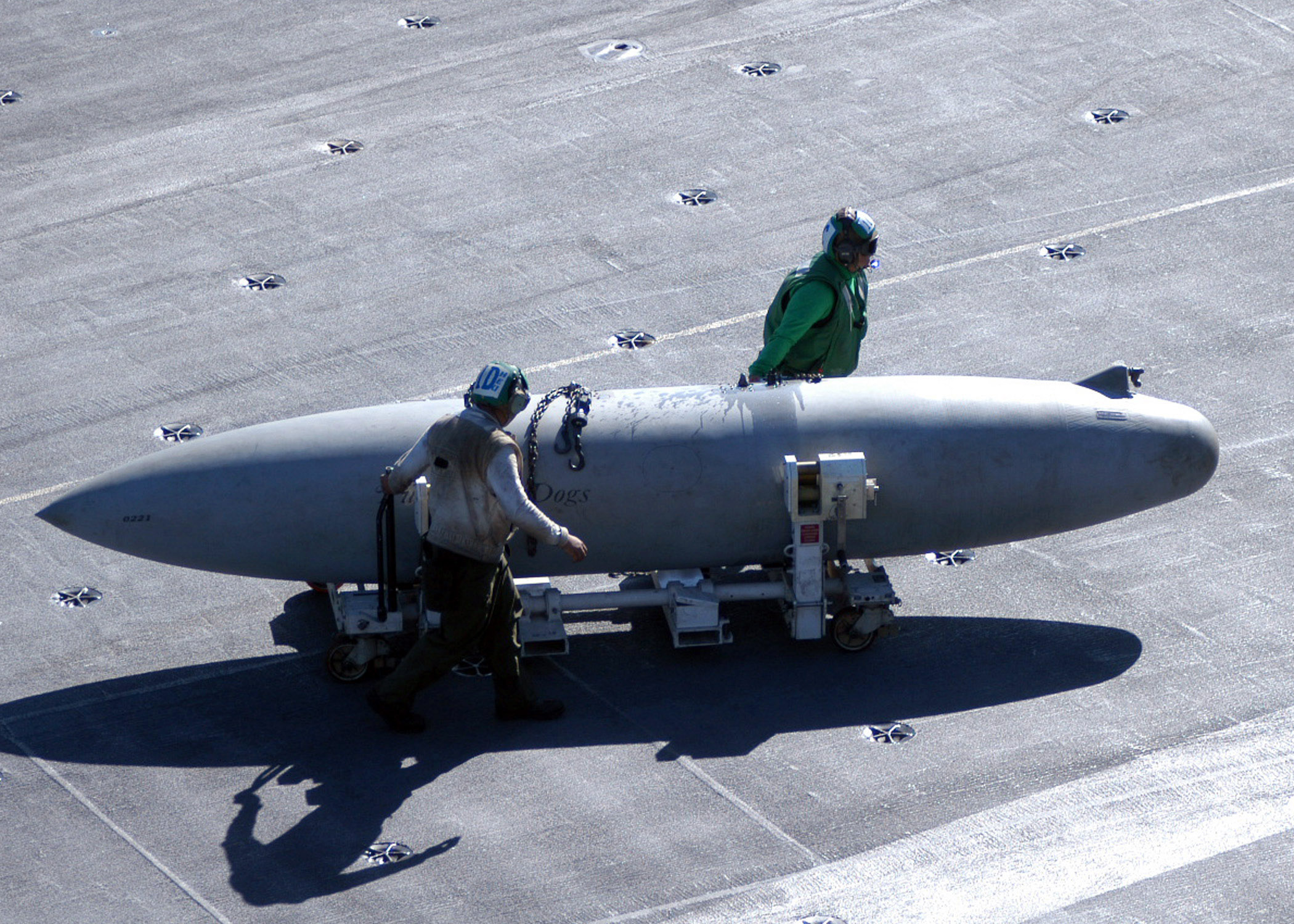 Arabian Sea (Nov. 26, 2006) - Sailors aboard the Nimitz-class aircraft carrier USS Dwight D. Eisenhower (CVN 69) move a fuel pod to an awaiting aircraft. Eisenhower and embarked Carrier Air Wing Seven (CVW-7) are on a regularly scheduled deployment in support of Maritime Security Operations. U.S. Navy photo by Mass Communication Specialist Seaman Apprentice Rafael Figueroa Medina